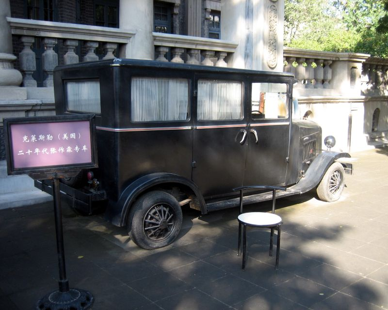 The Zhang family Chrysler. Circa 1920s. They'll let you sit inside the car and pose for pictures for a 5RMB fee.